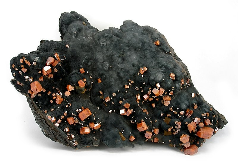 Vanadinite, Psilomelane Locality: Taouz, Er Rachidia Province, Meknès-Tafilalet Region, Morocco (Locality at ) Size: 24.5 x 16.6 x 9.0 cm. A very rare piece today not only for size but for overall aspect, from the early 1980s finds at Taouz which preceded major finds at Mibladen that later made people forget about these small finds out in the further desert. However, these older pieces are of a unique style with startling contrast when on this great velvety matrix, were more rare when found, more valuable when found, harder to get then and still rarer today. I have seen pictures of this forbidding locality in a slideshow by Vic Yount, recently, and let me tell you I am amazed we have ANYTHING from there. The place is near the OPEN border with Libya. It consists of a warren of natural caves accessed by dangerous un-supported shafts dug by hand. And it is in the middle of a very hot desert! I am shocked a large specimen like this survived unscathed. The velvety surface is especially prone to damage and you have to think about the care taken to get it from the mine to the market and then through 30 years of collectors hands. Charlie bought it soon after it was found at Tucson of 1984, directly from Vic Yount who handled most of them at the time. It is a dramatic display piece and happens also to be really good for what it is. This is a key piece form the Charlie Freed Collection out of Los Angeles.